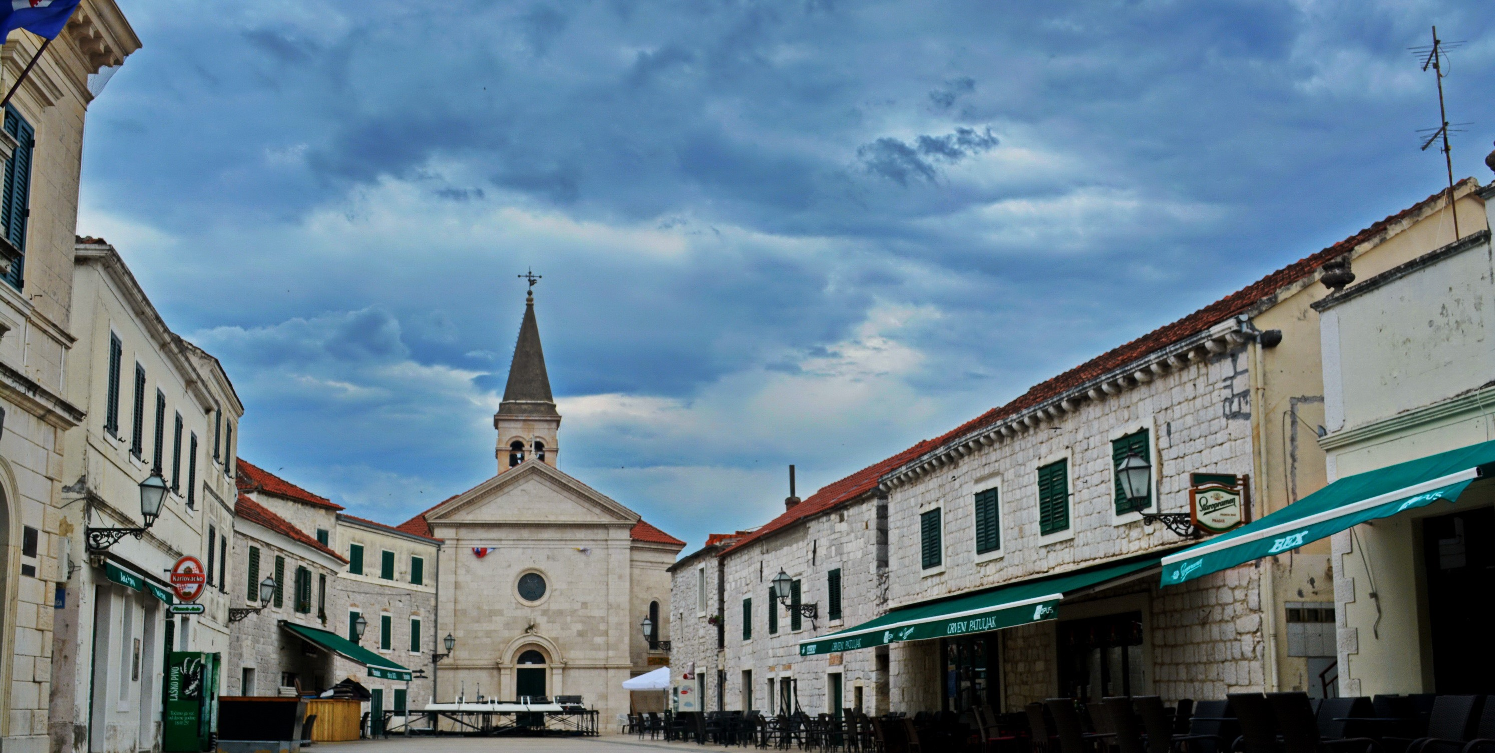 King Tomislav square and Saint Stephen's church